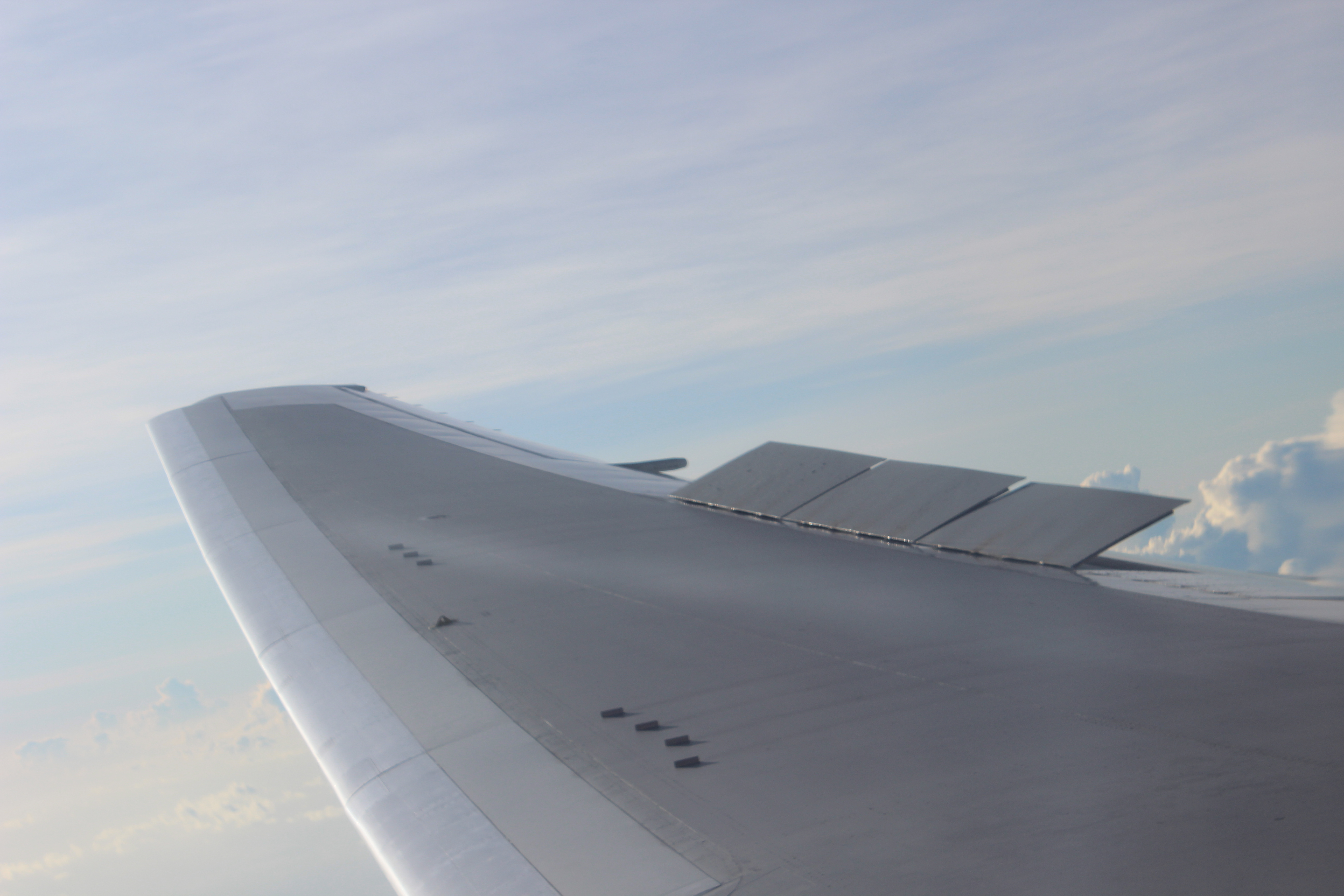 Picture of the partially deployed spoilers on the starboard wing of our American Airlines Boeing 767-323ER during our descent to POS. AAL flight 1167, on 11/29/12. Taken from seat 13J with Canon T3i.